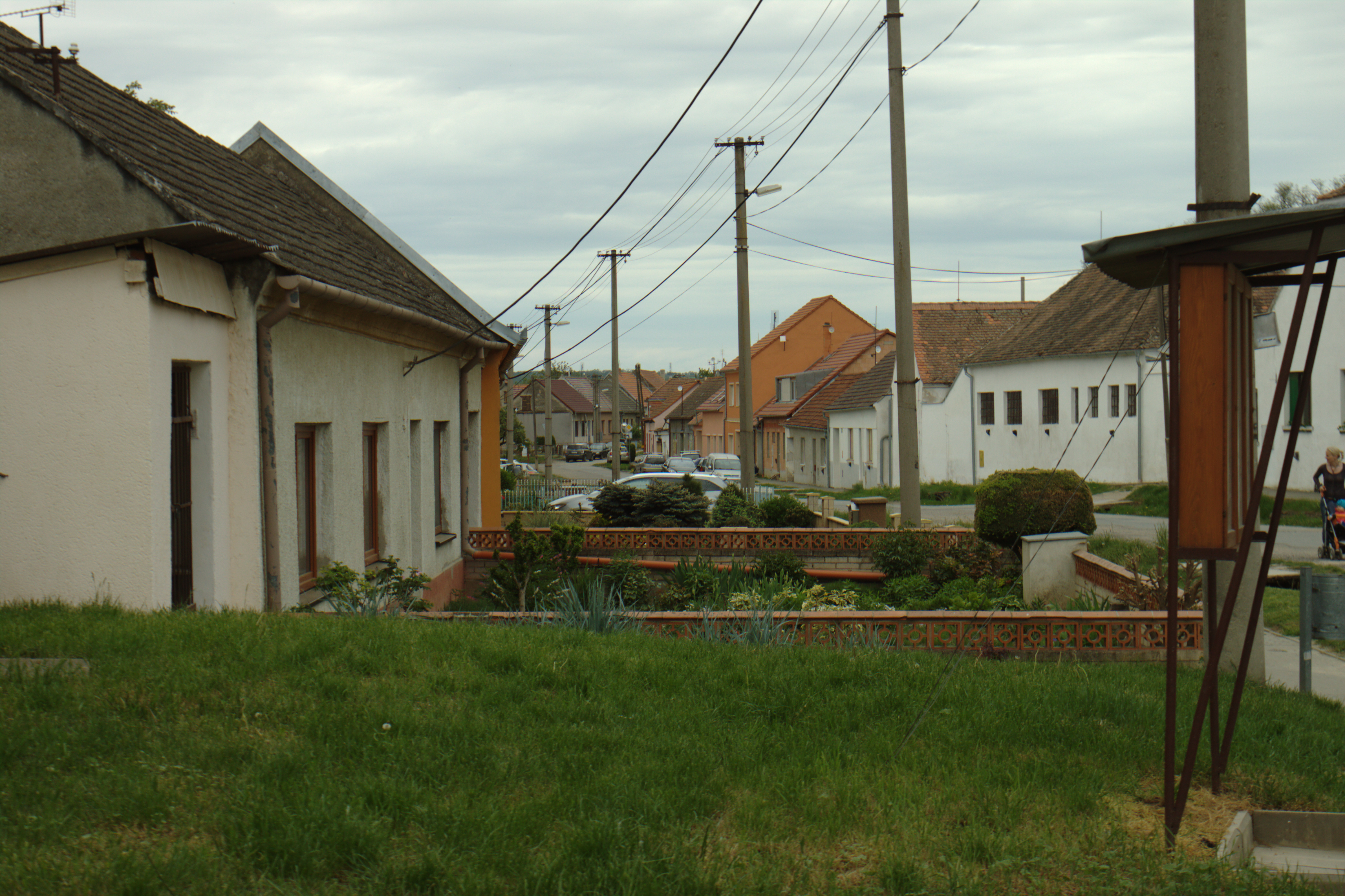 Various buildings in the village of Morašice, main road. South Moravian Region, CZ